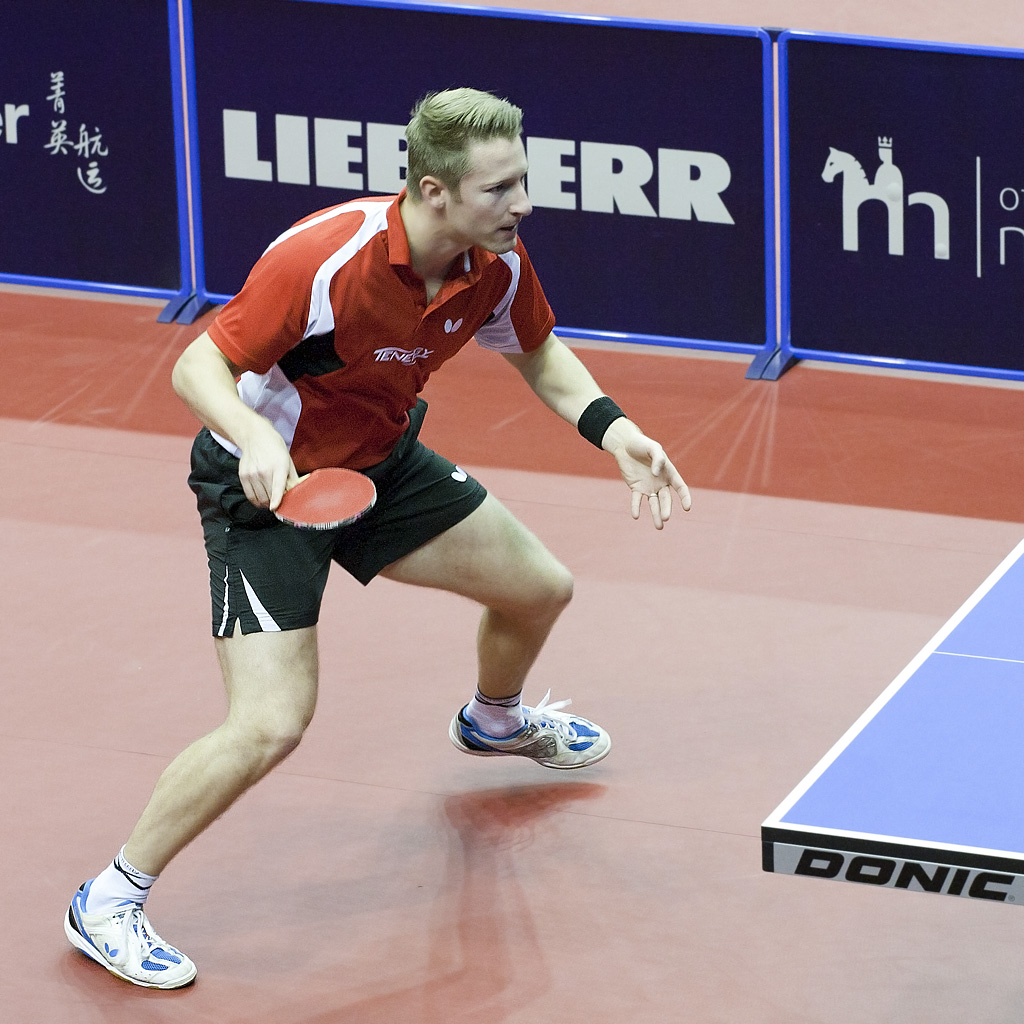 ITTF World Tour 2017 German Open, Magdeburg, Germany, 7 Nov 2017 - 12 Nov 2017, Filus Ruwen